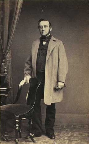 Charles Georg Adlaid Aumont (1823-1905), Danish CEO of Privatbanken